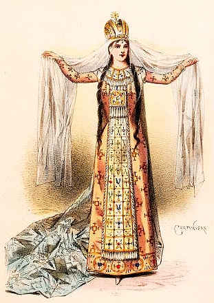 American soprano Sibyl Sanderson (1865-1903) in the title role in Massenet's Esclarmonde at the Opéra-Comique in Paris. Prologue, 1st tableau. Artwork by Antonin-Marie Chatinière (1828-?).